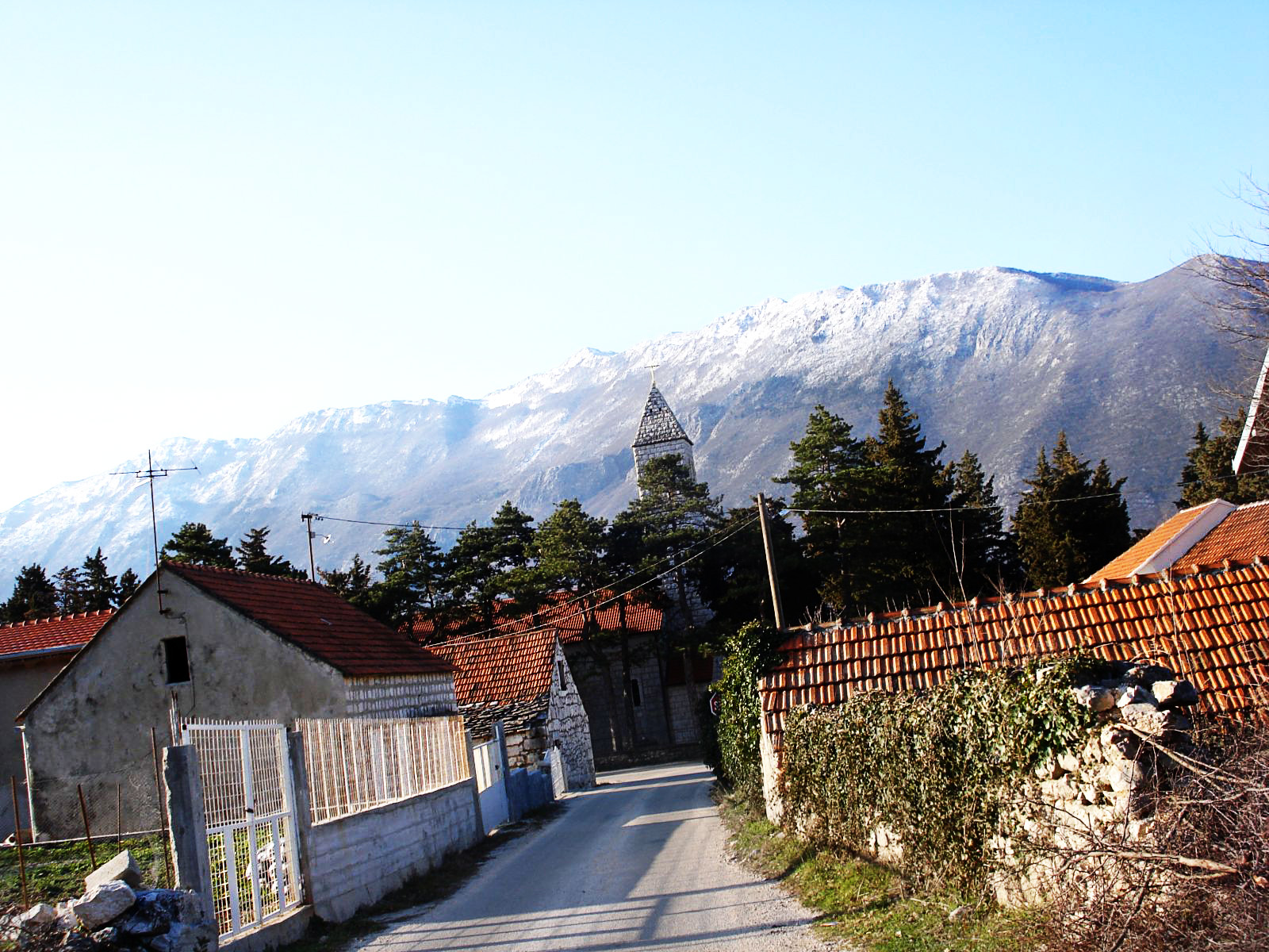 Grabovac, a village in the municipality of Šestanovac, Croatia.